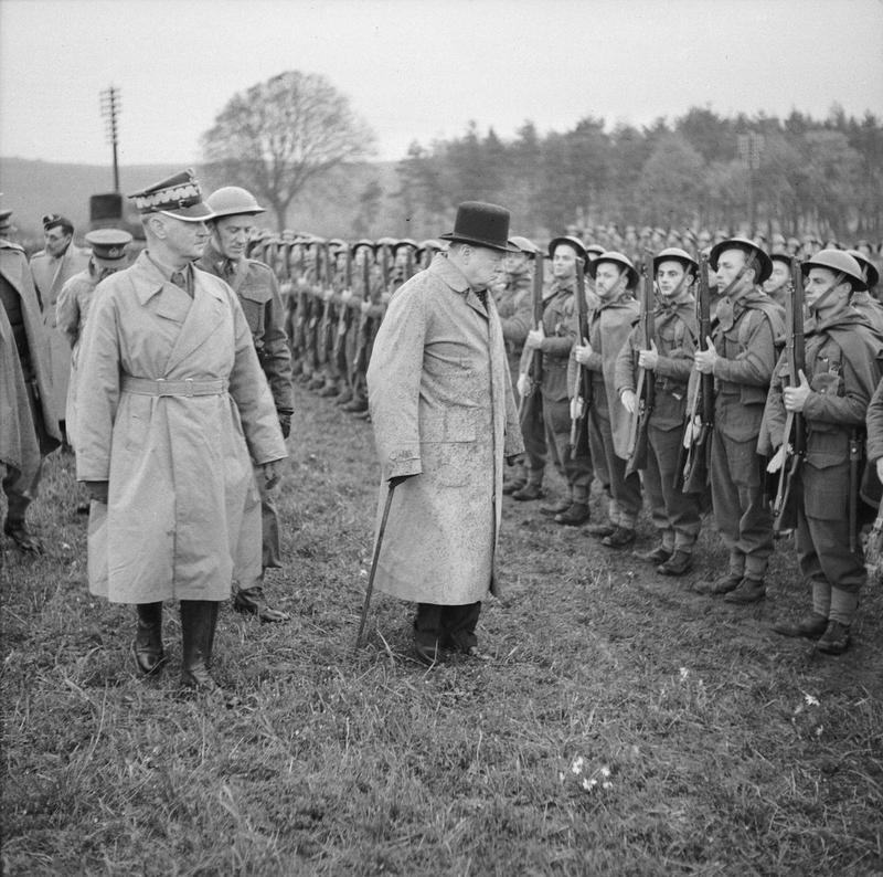 Winston Churchill in the Second World War Winston Churchill inspecting troops of the 1st Rifle Brigade (1st Polish Corps) with General Władysław Sikorski at Tentsmuir in Scotland. General Gustaw Paszkiewicz, the CO of the Brigade, is behind General Sikorski.